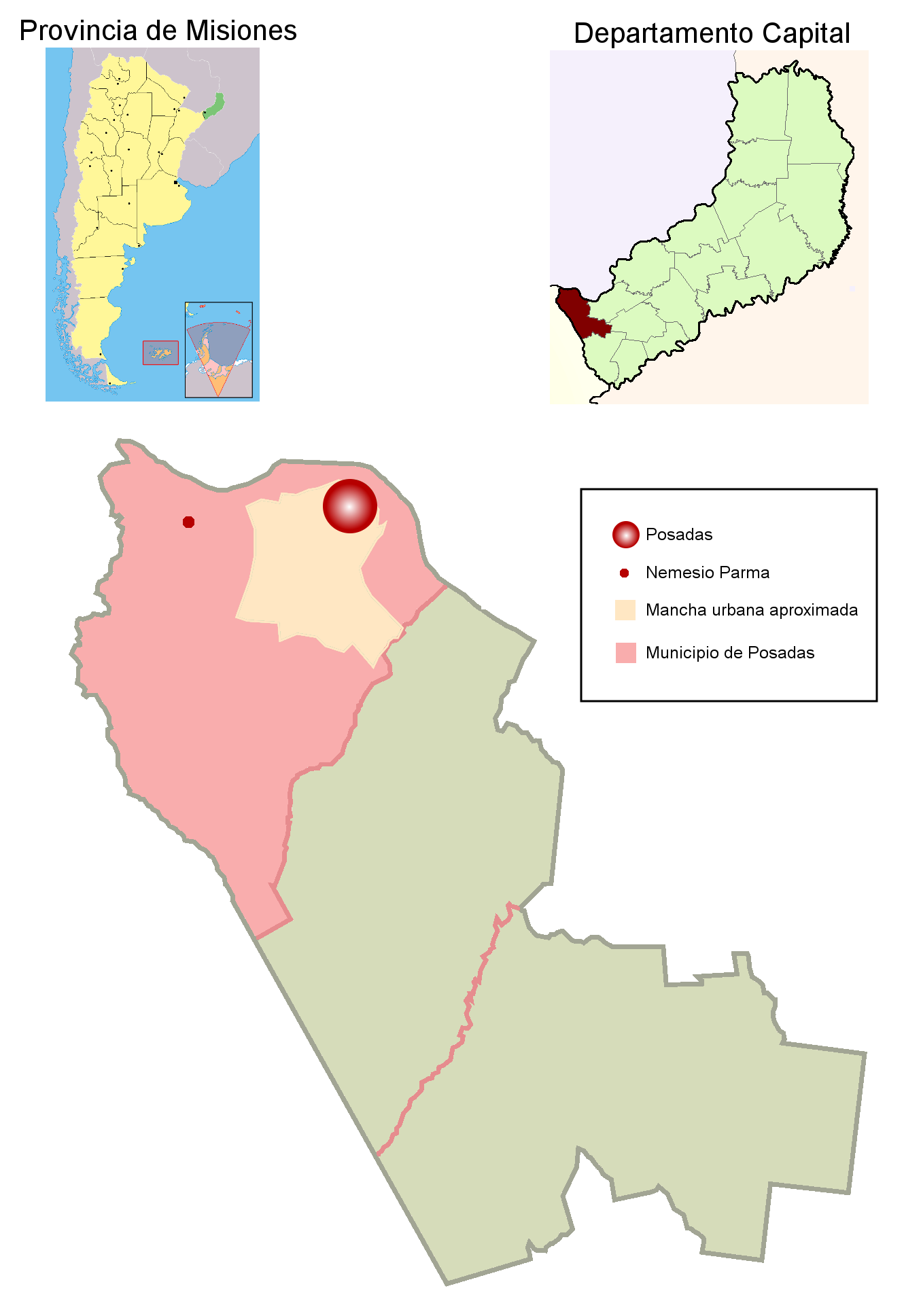 A map showing municipio of Posadas in Capital departament, Misiones province, Argentina. Also shows Posadas location, its urban sector and Nemesio Parma town location. Created with GIMP.